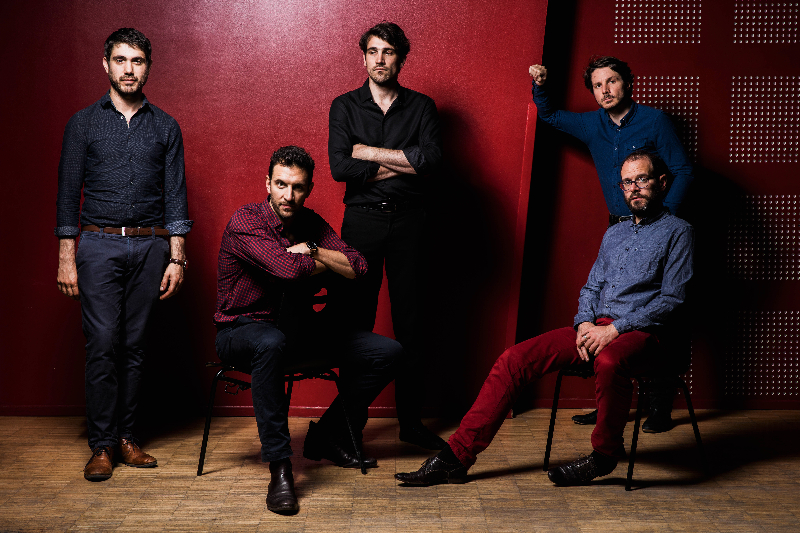 Portrait of the french band Ozma taken in Strasbourg